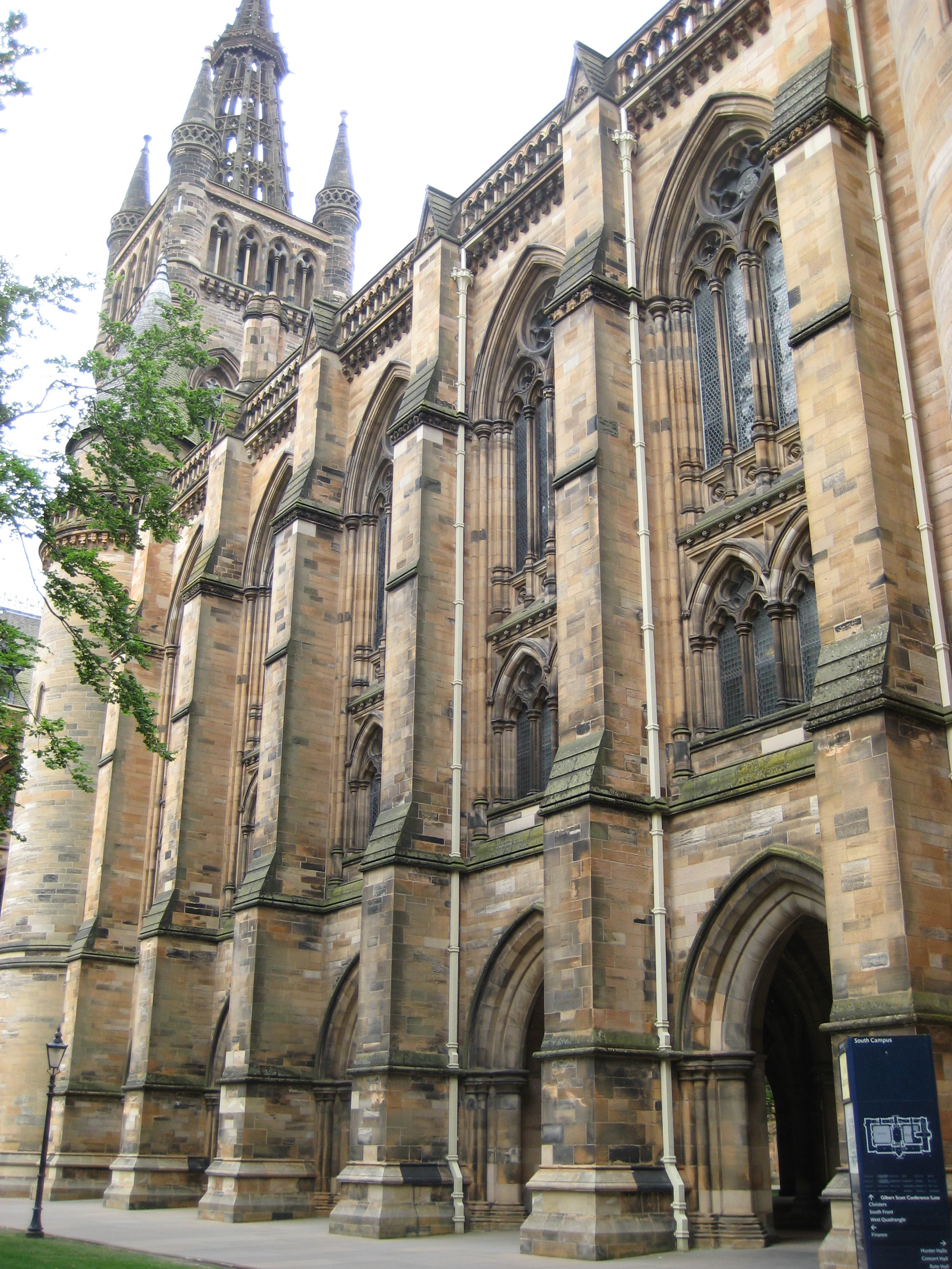 Bute Hall, at the heart of the Gilbert Scott Building, is used for ceremonial events and conferences. This is on Gilmorehill, the main campus for the University of Glasgow.